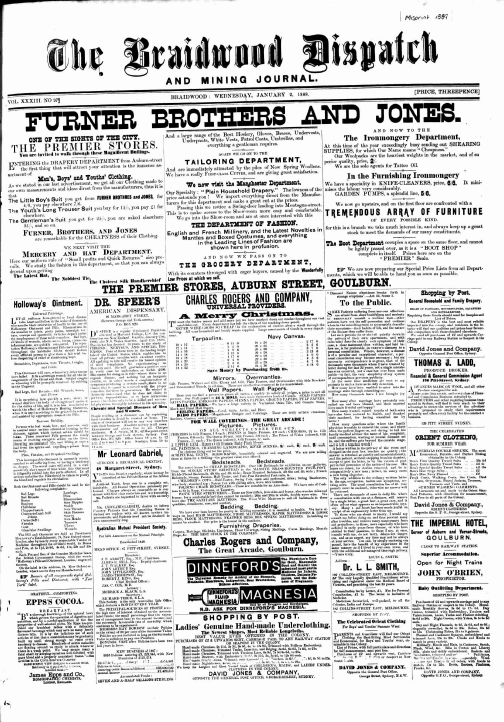 Cover page of an historic newspaper from New South Wales, Australia